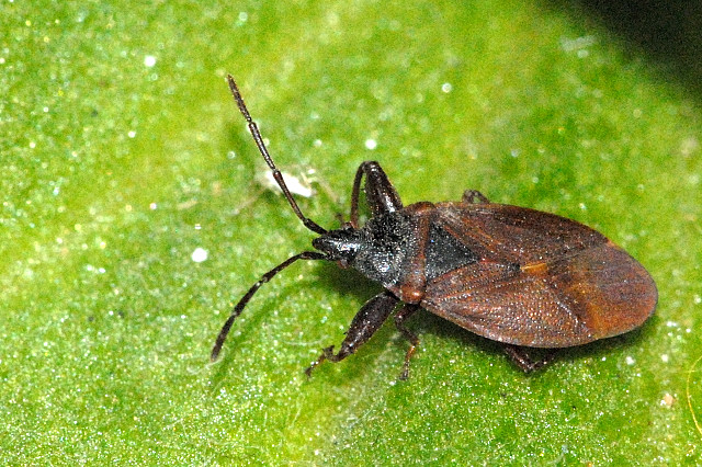 Gastrodes grossipes from Commanster, Belgian High Ardennes .